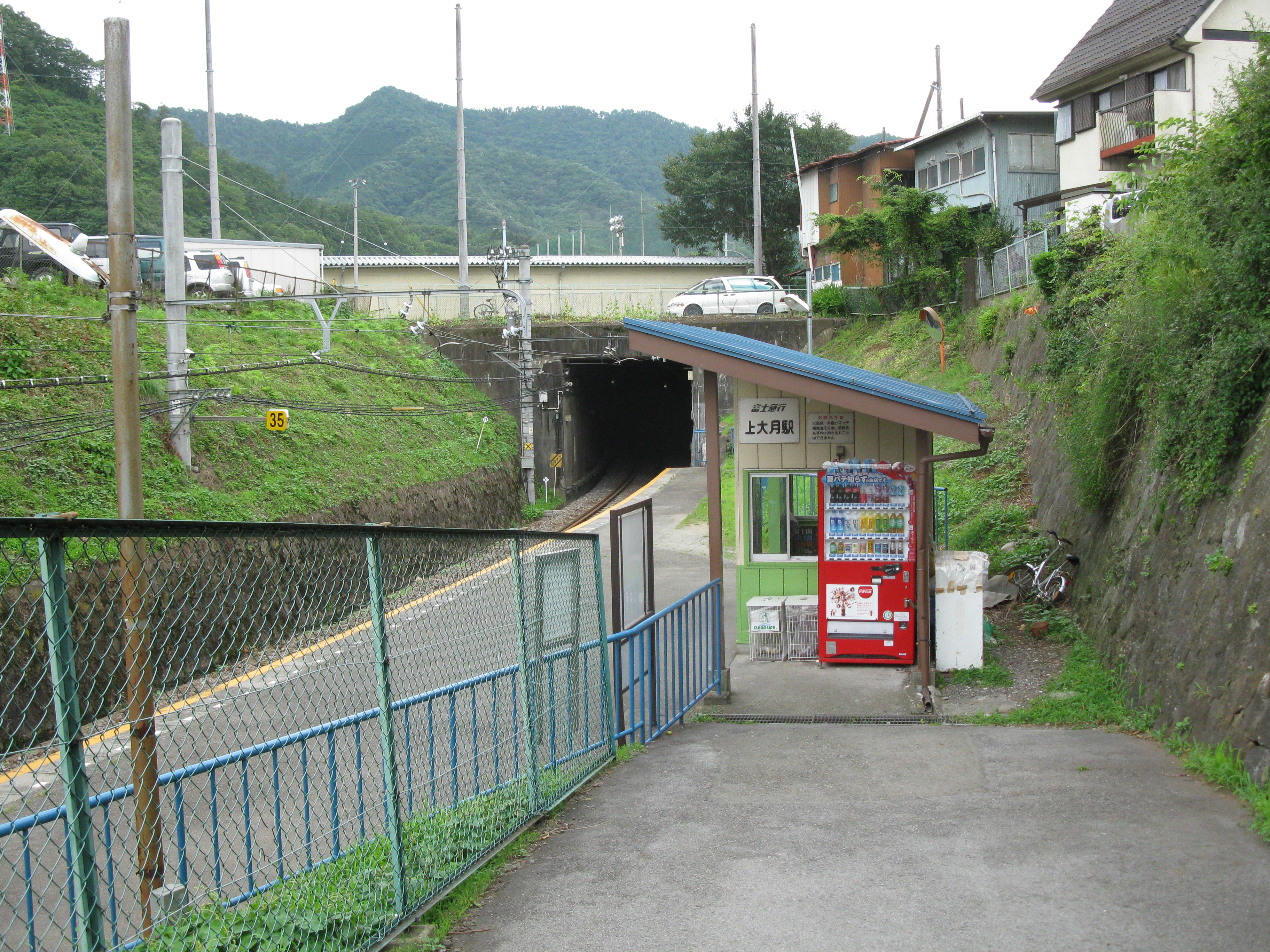 Kami-Ōtsuki Station entrance (Fuji Kyuko Ōtsuki Line)